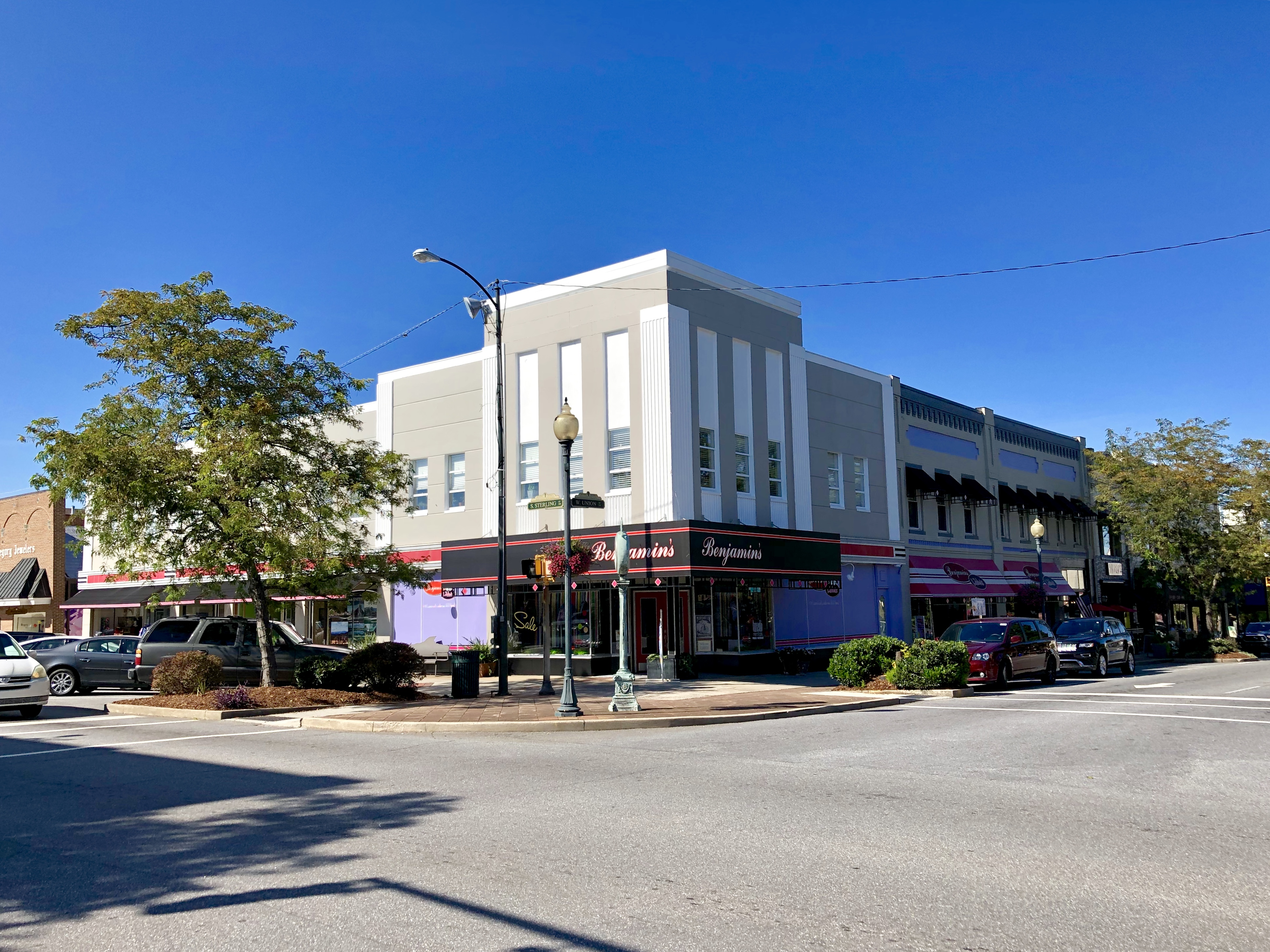 This is the corner of Union Street and Sterling Street in the downtown business district of Morganton, North Carolina. The buildings pictured are contributing structures in the Morganton Downtown Historic District, listed on the National Register of Historic Places in 1987.